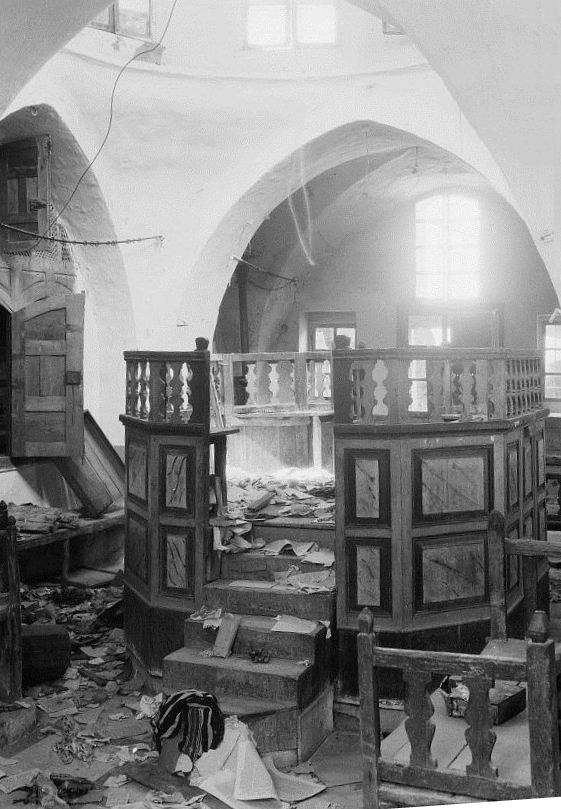 Palestine events. The 1929 riots, August 23 to 31. Synagogue desecrated by Arab rioters. Hebron. Furniture broken, floor littered with torn sacred books.